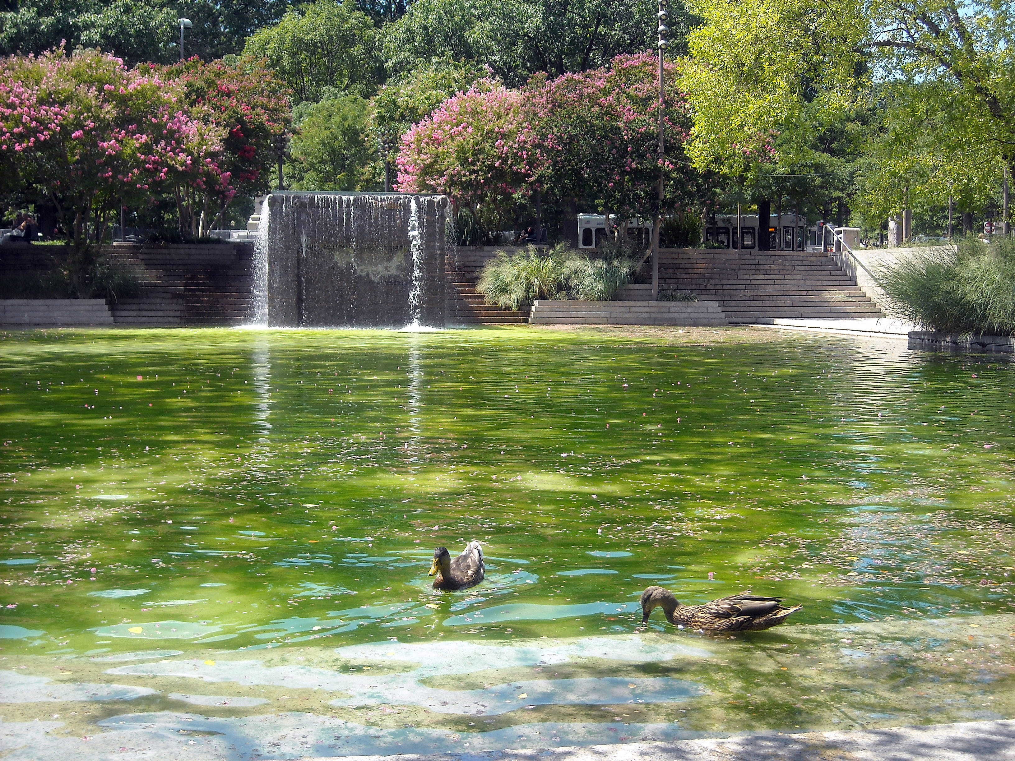 Pershing Park at 14th and Pennsylvania Avenue, NW in Washington, D.C. The park is named after John J. Pershing, the General of the Armies during World War I.